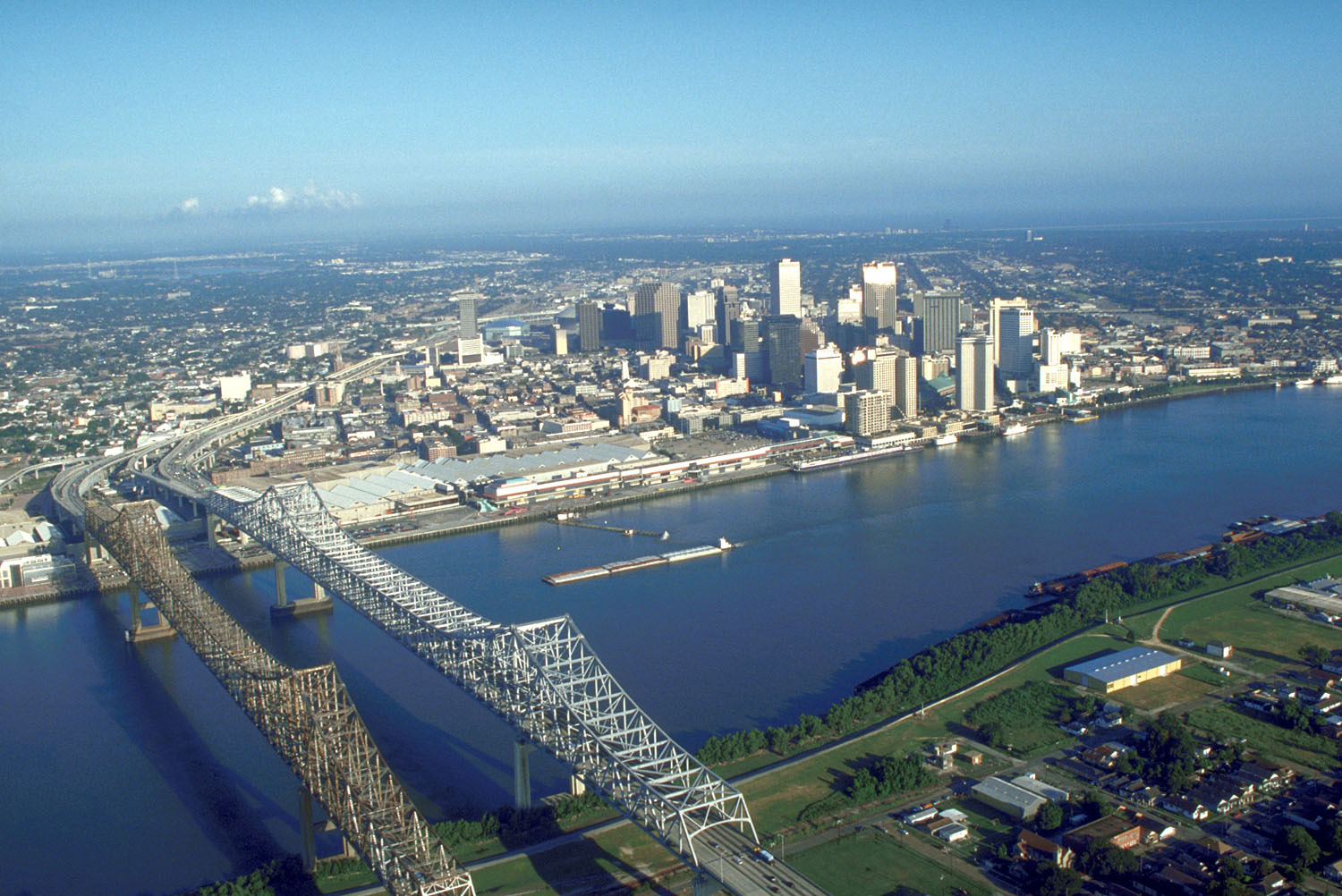 Skyline of New Orleans, Louisiana, USA. The twin spans of the Crescent City Connection bridges are in the foreground.